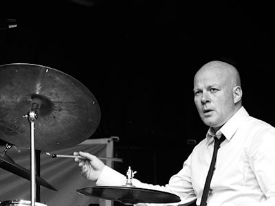 Thomas Blachman